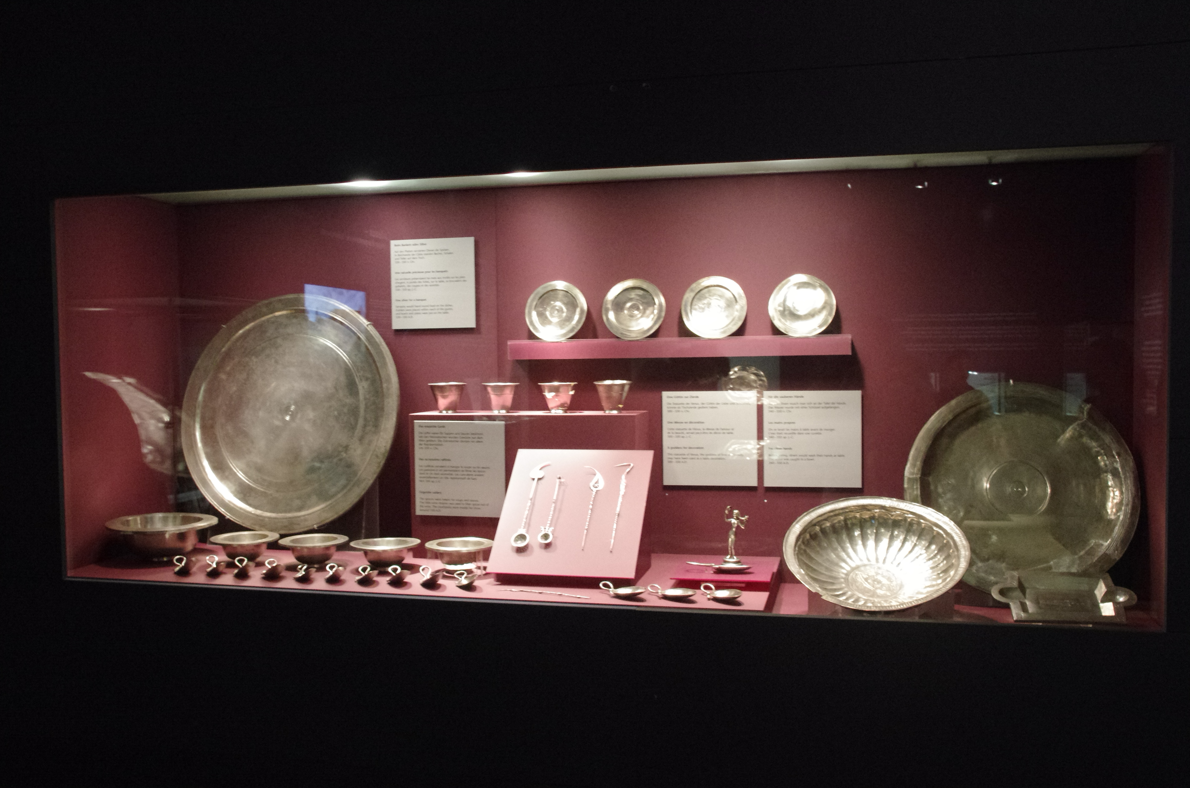 Silver Treasure - Roman Museum - Augusta Raurica - August 2013